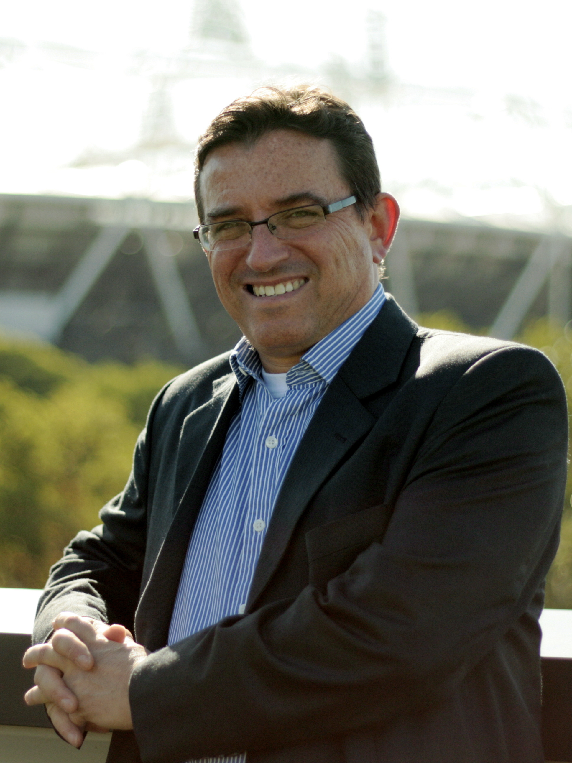 On the Forman's smokehouse roof terrace with the main Olympic stadium in the background. Click here for the interview.